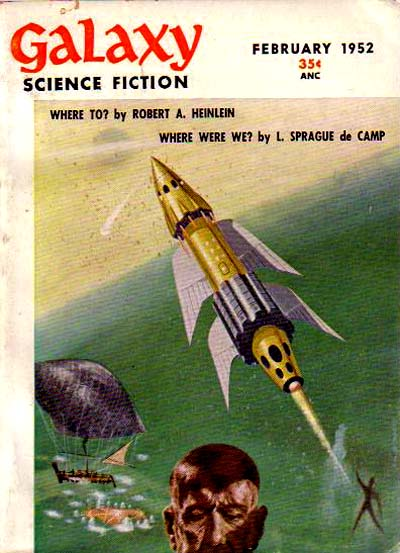 Cover of Galaxy, February 1952